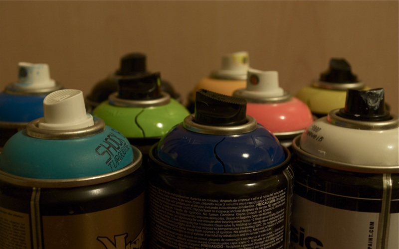 Collection of spray cans.